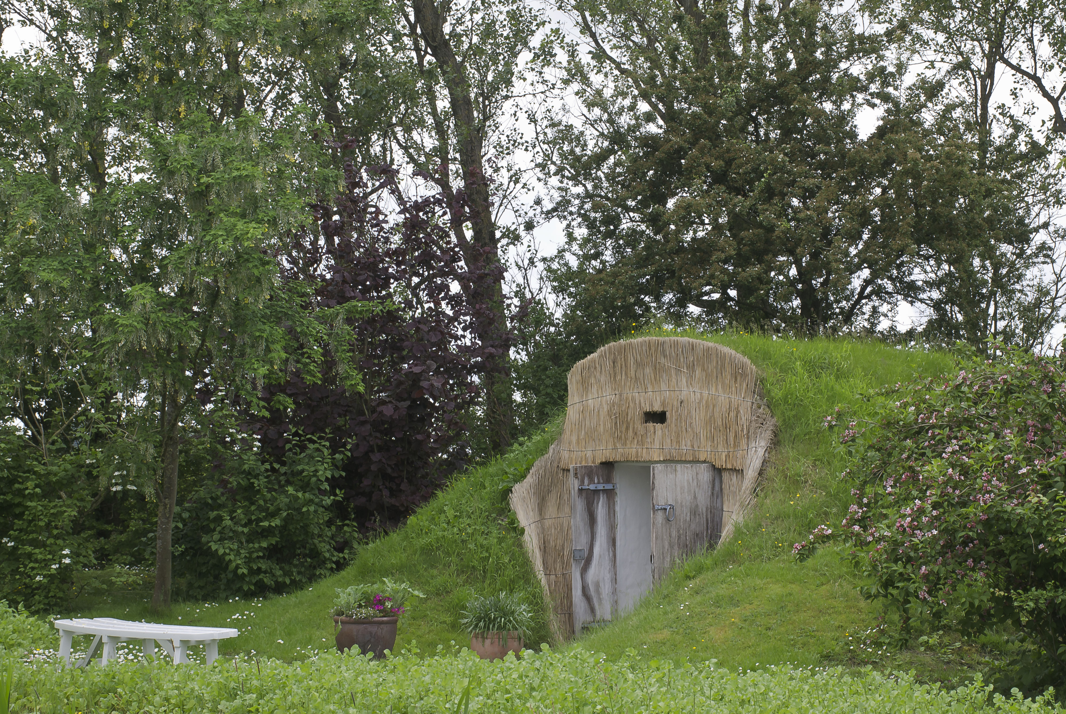 Emil Nolde burial place at Haus Seebüll, Neukirchen municipality, Schleswig-Holstein, Germany